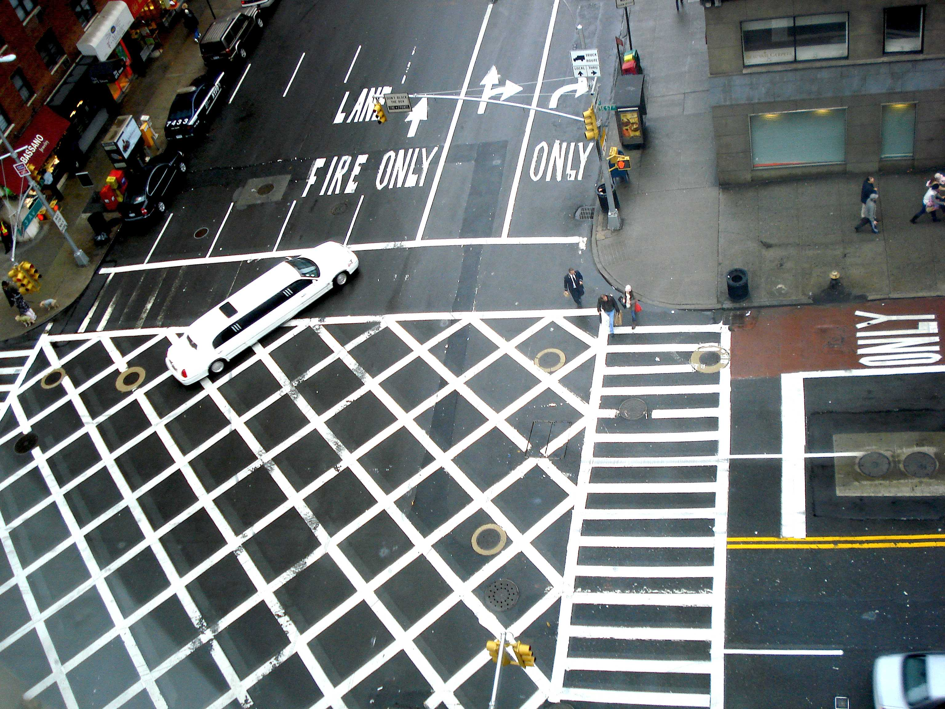 Stretch limousine in New York City